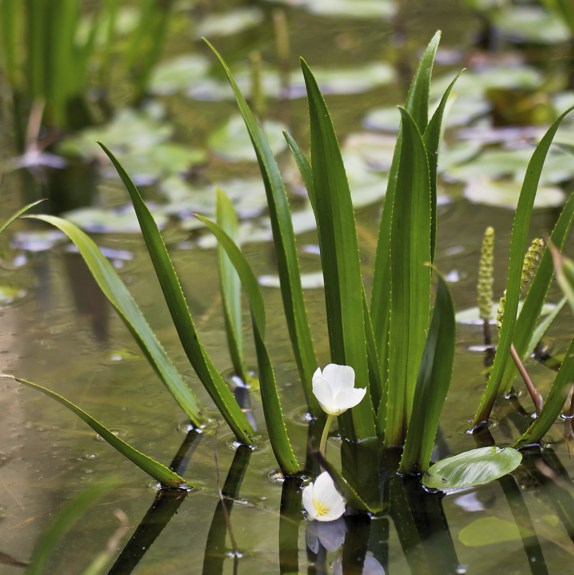 Water Soldier (Stratiotes aloides), Chemnitz, Germany